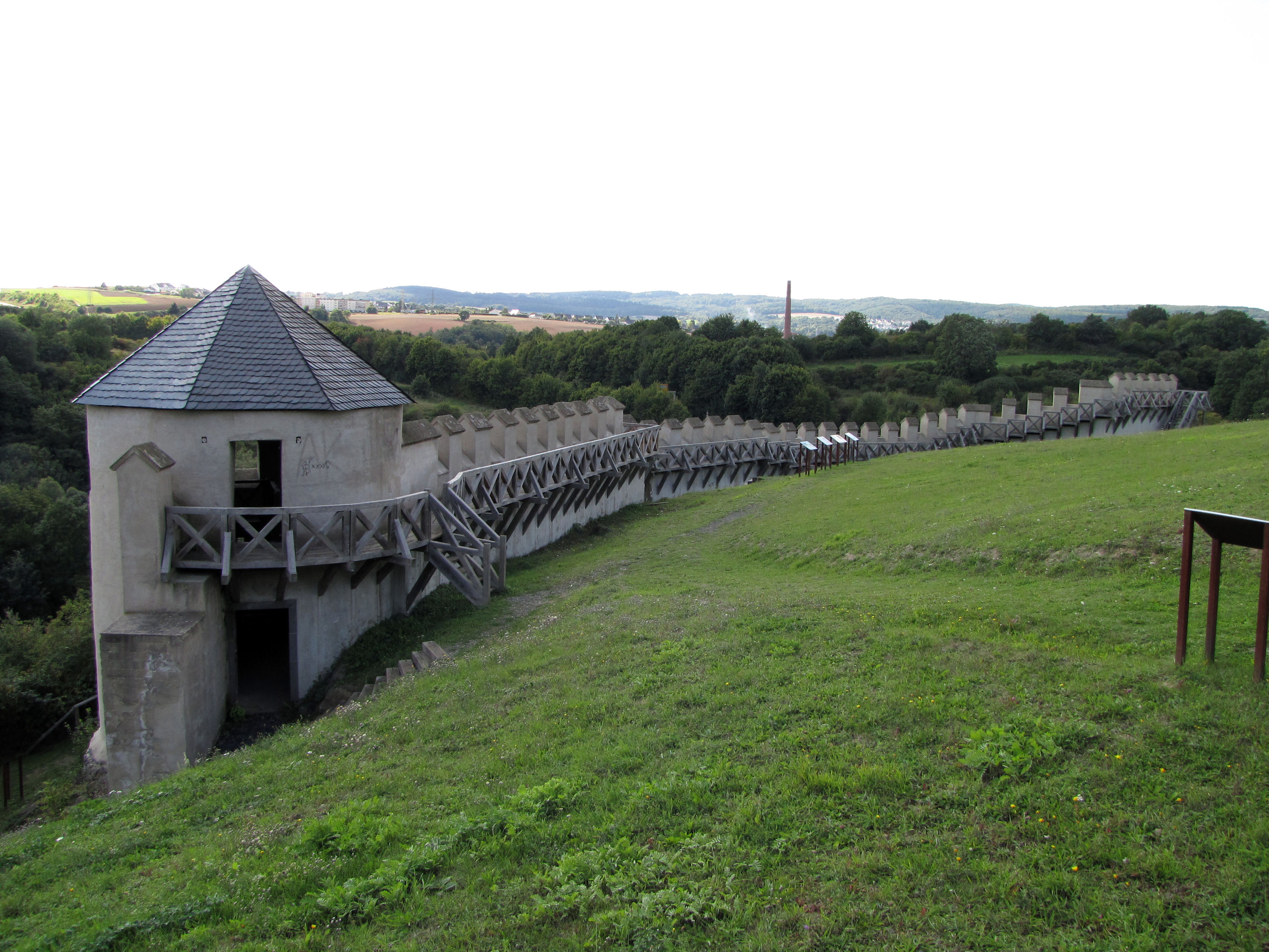 Katzenberg late roman hilltop fortification nearby Mayen